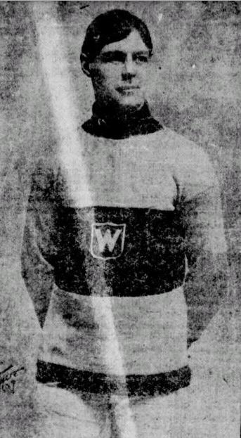 Hod Stuart of the Montreal Wanderers.